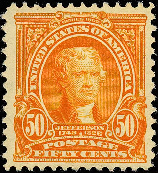 Thomas Jefferson, Issue of 1903, 50c